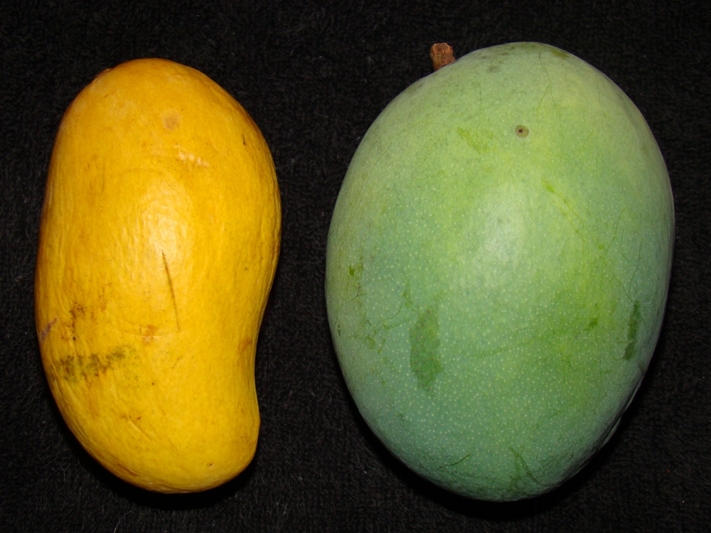 A semi-ripe Gold Nugget mango (Mangifera indica / Anacardiaceae) from the Ghosh Grove, Rockledge, Florida is compared with a store-bought Ataulfo mango (left), grown in Mexico.